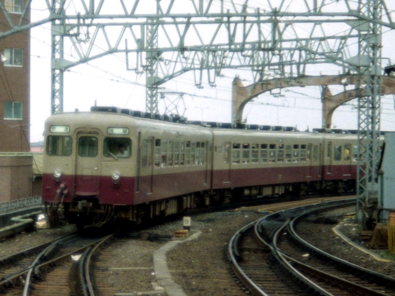 Tobu Railway 6000 series EMU at Asakusa Station